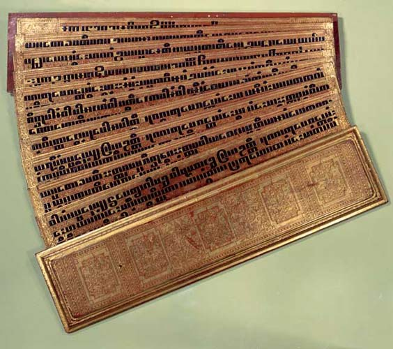 Partial manuscript on metal plates with ornamented wooden covers, Pagan Kingdom, 11th-13th century, National Gallery for Foreign Art